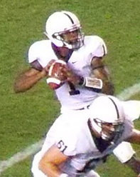 Penn State quarterback Rob Bolden steps back to pass against Alabama on Sept. 11, 2010.